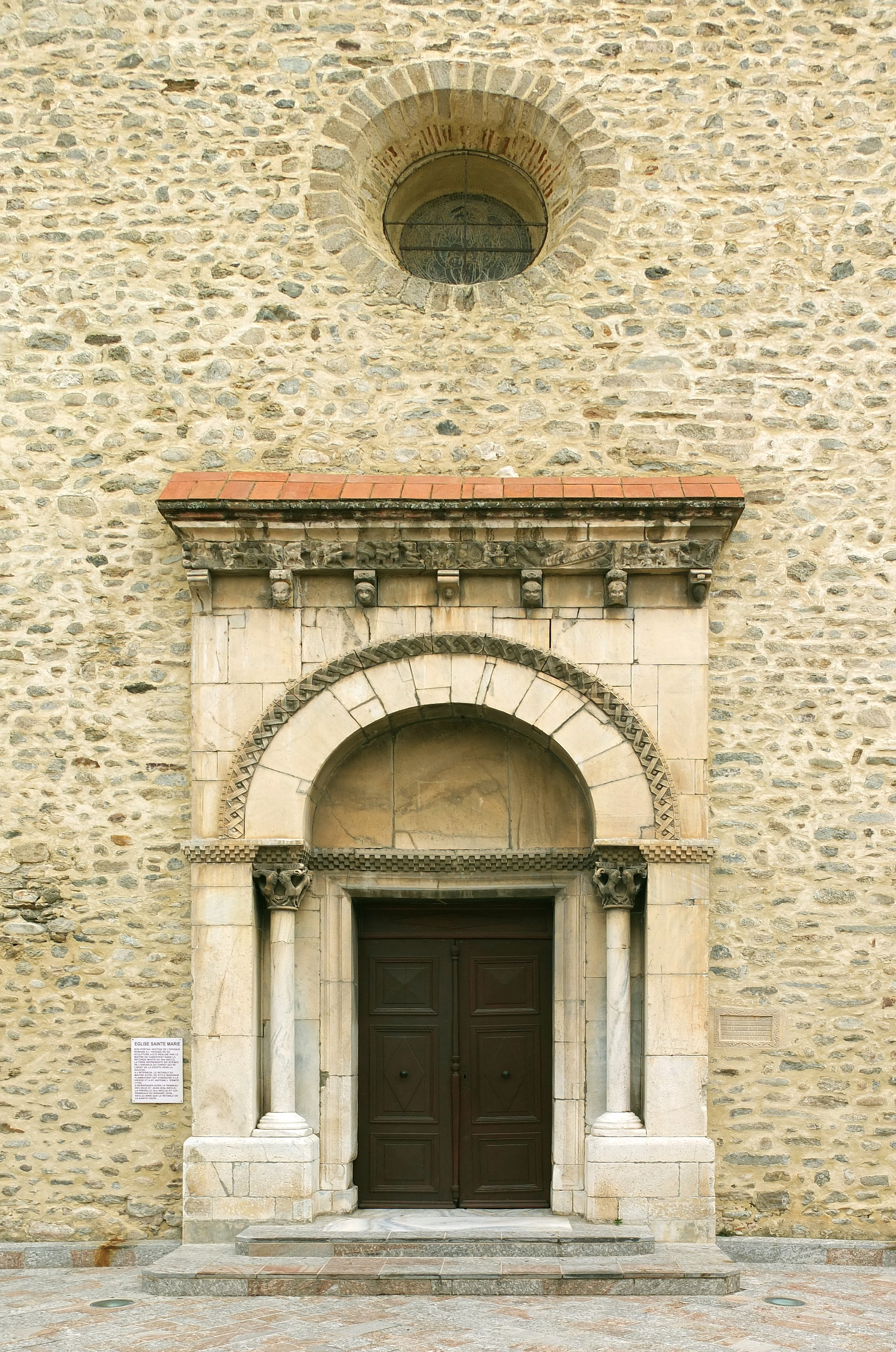 Portal of Parish Church Sainte-Marie, Le Boulou, France